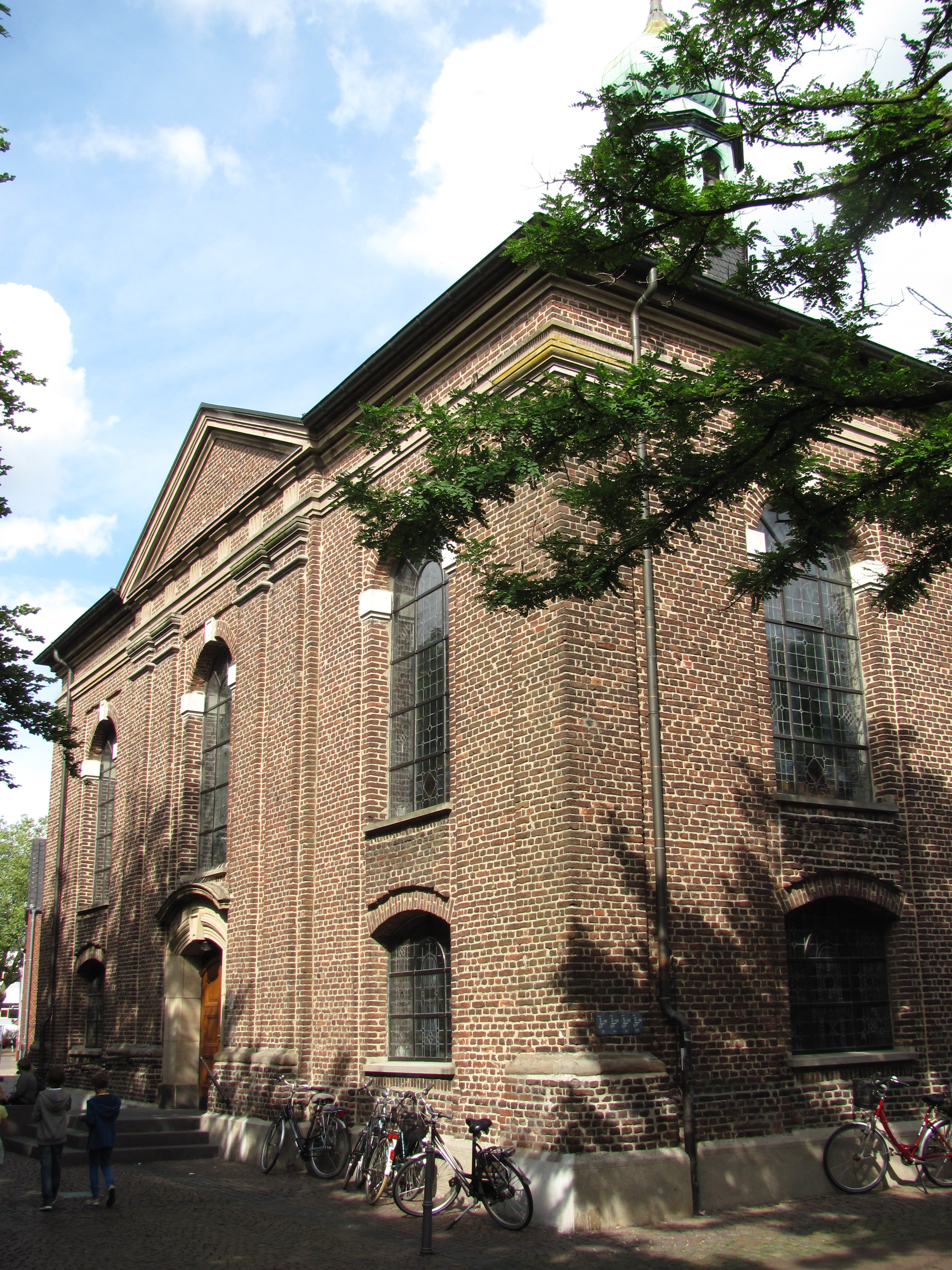 Protestant Church, Geldern, North Rhine Westphalia, Germany